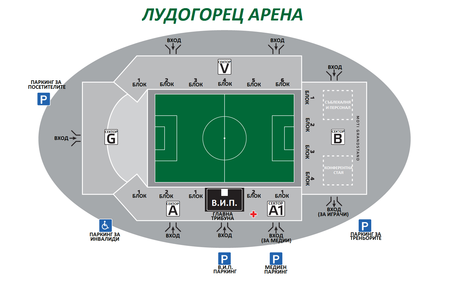 Components of the Ludogorets arena in Razgrad, Bulgaria.